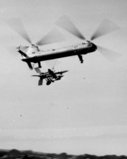 First prototype of the Bristol 192 Belvedere XG447, though it may not have been named then, showing the early endplate fins. Taken at the SBAC Show, Farnborough 13 September 1958 with a little camera from some distance. The aircraft had about 10 hours on the clock.